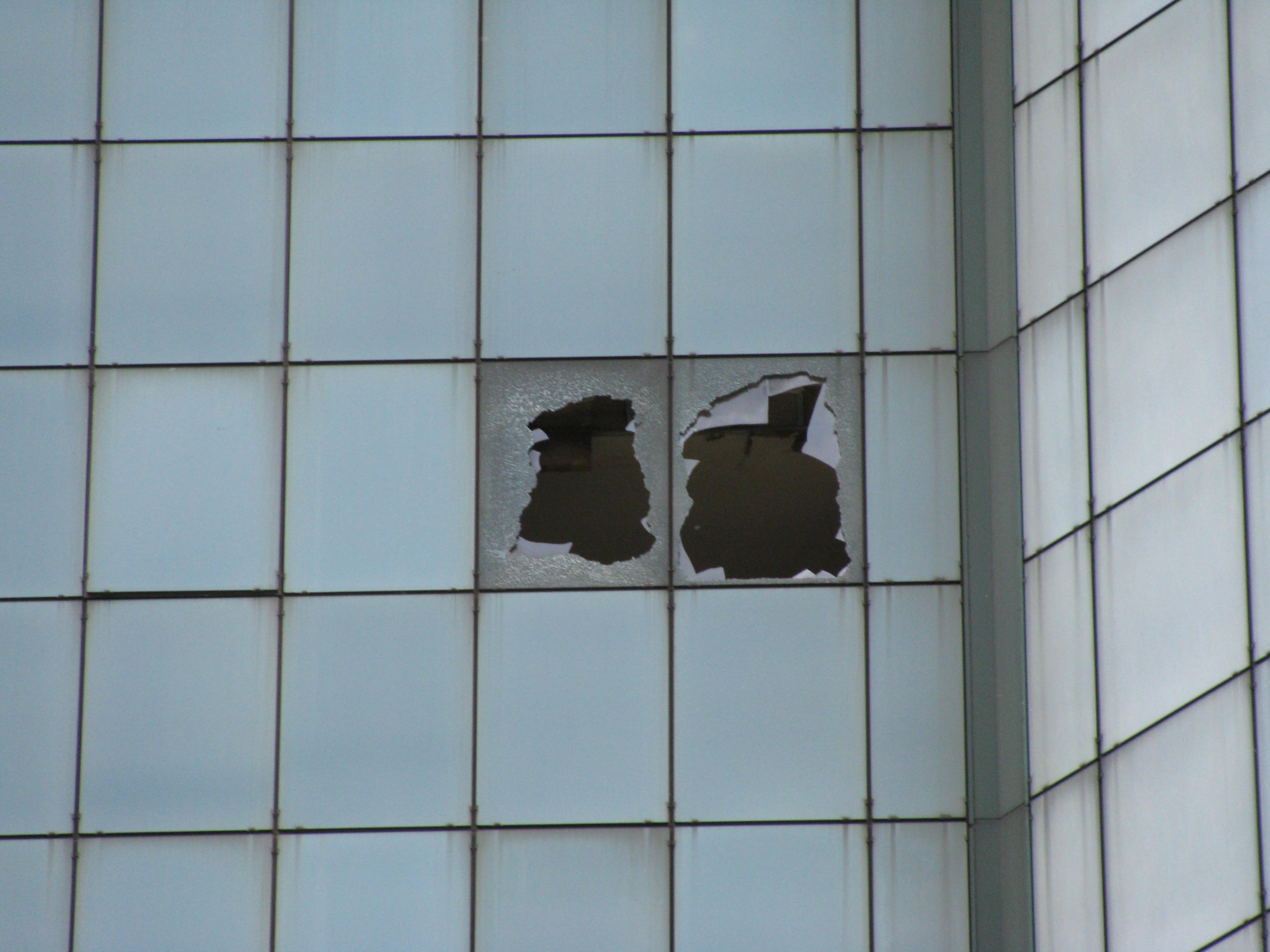 Zenith International Business Center in Moscow